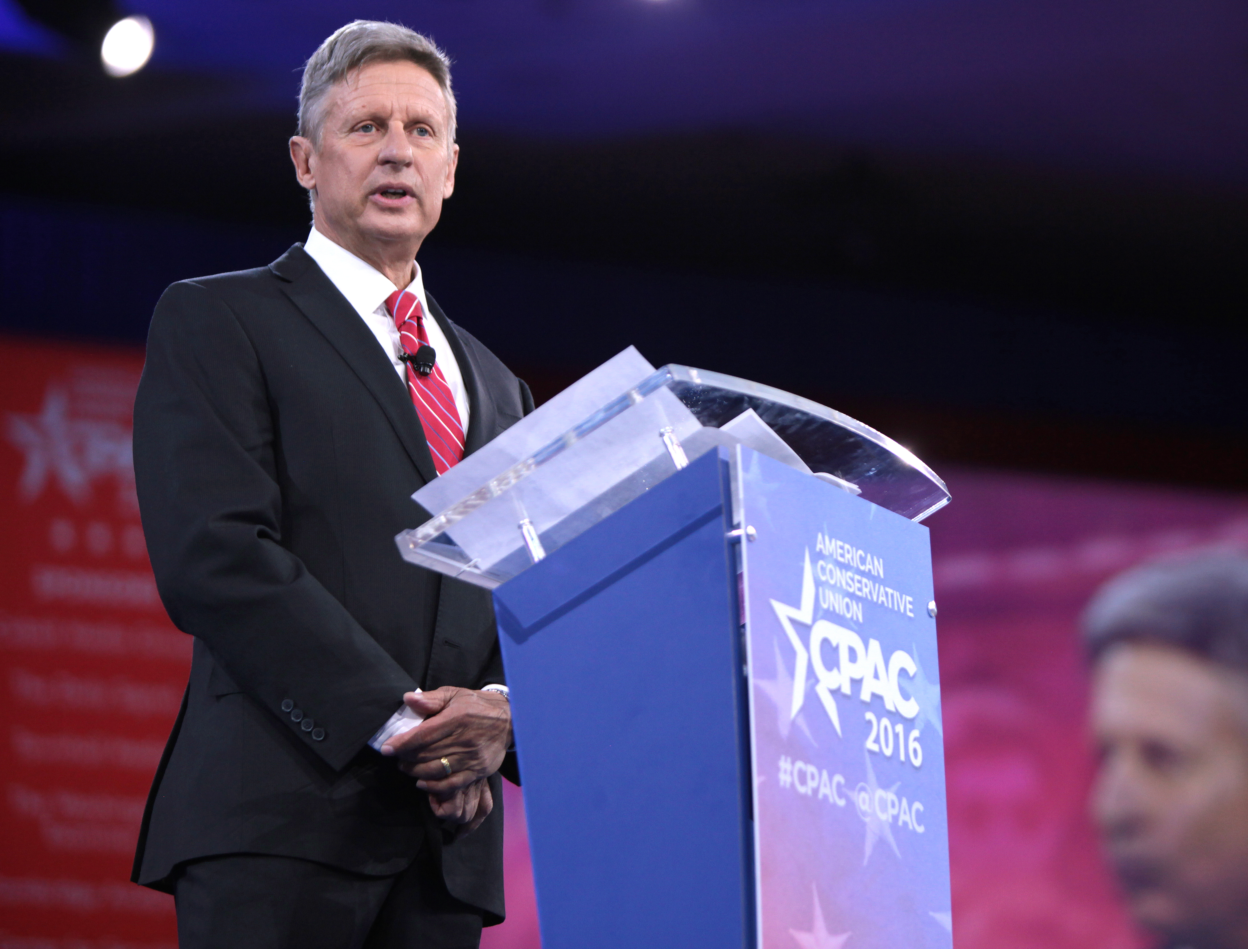 Gary Johnson speaking at an event in Washington, D.C.